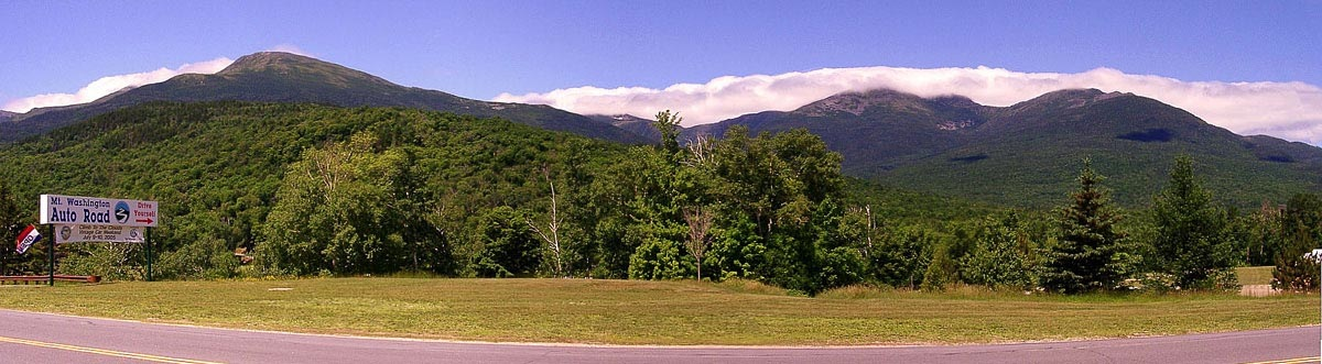 The floor of Pinkham Notch, looking toward Mount Washington - Photographer:Srsteel. uploaded by Srsteel. available online at New version uploaded with URL watermark removed en:2008-02-15 --TimTay (talk) 14:53, 15 February 2008 (UTC)